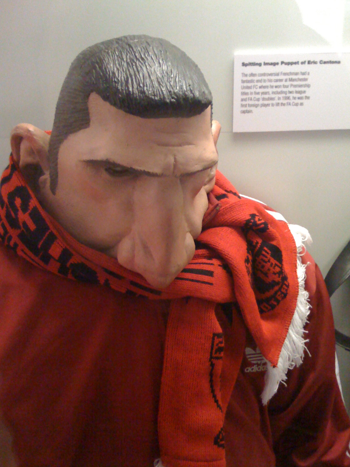 Spitting Image Puppet of Éric Cantona displayed at the "Only a Game" exhibition at the World Museum, Liverpool. [1]